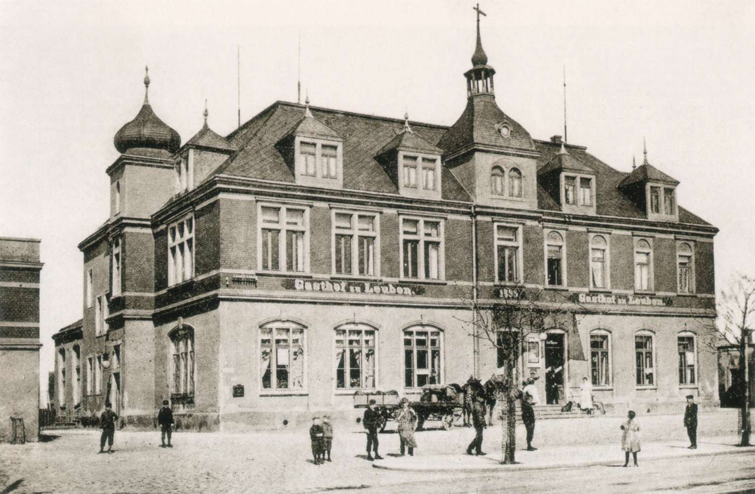 guesthouse in Dresden-Leuben, Germany – post card around 1900